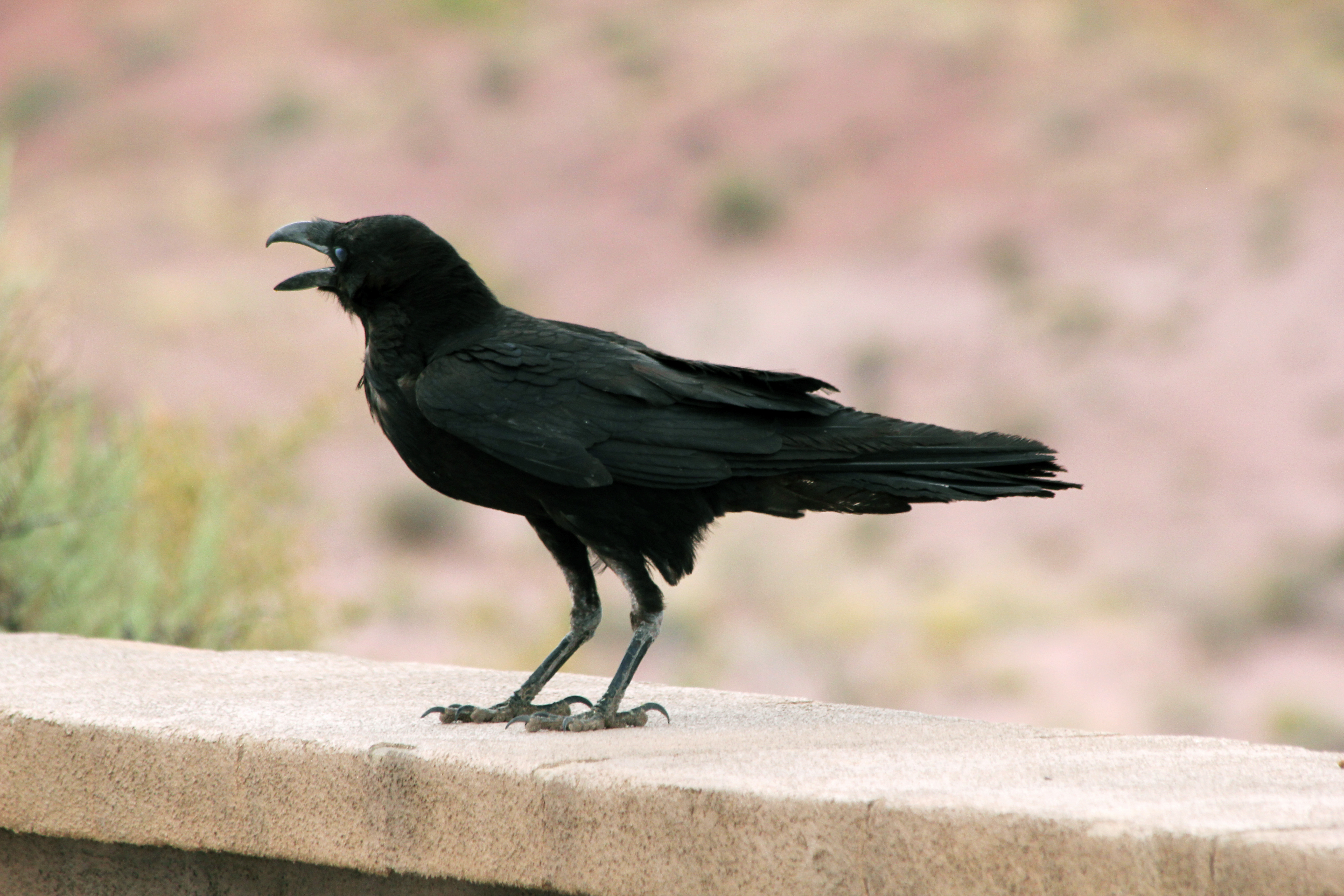 Chihuahuan Raven in Arizona, USA.